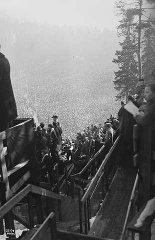 Holmenkollbakken in Oslo, Norway, during the FIS Nordic World Ski Championships 1930